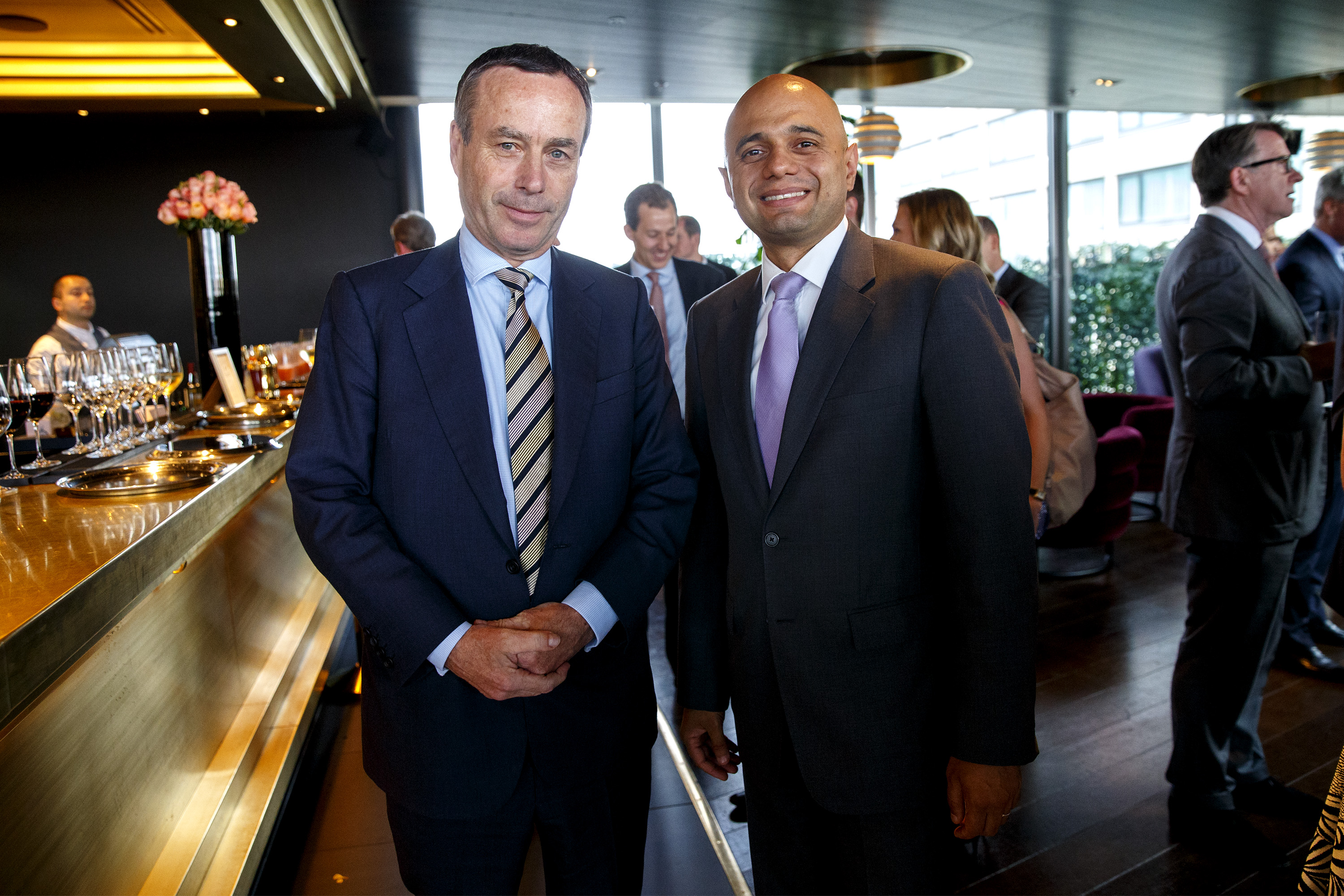 FT Editor Lionel Barber and Business Secretary Sajid Javid